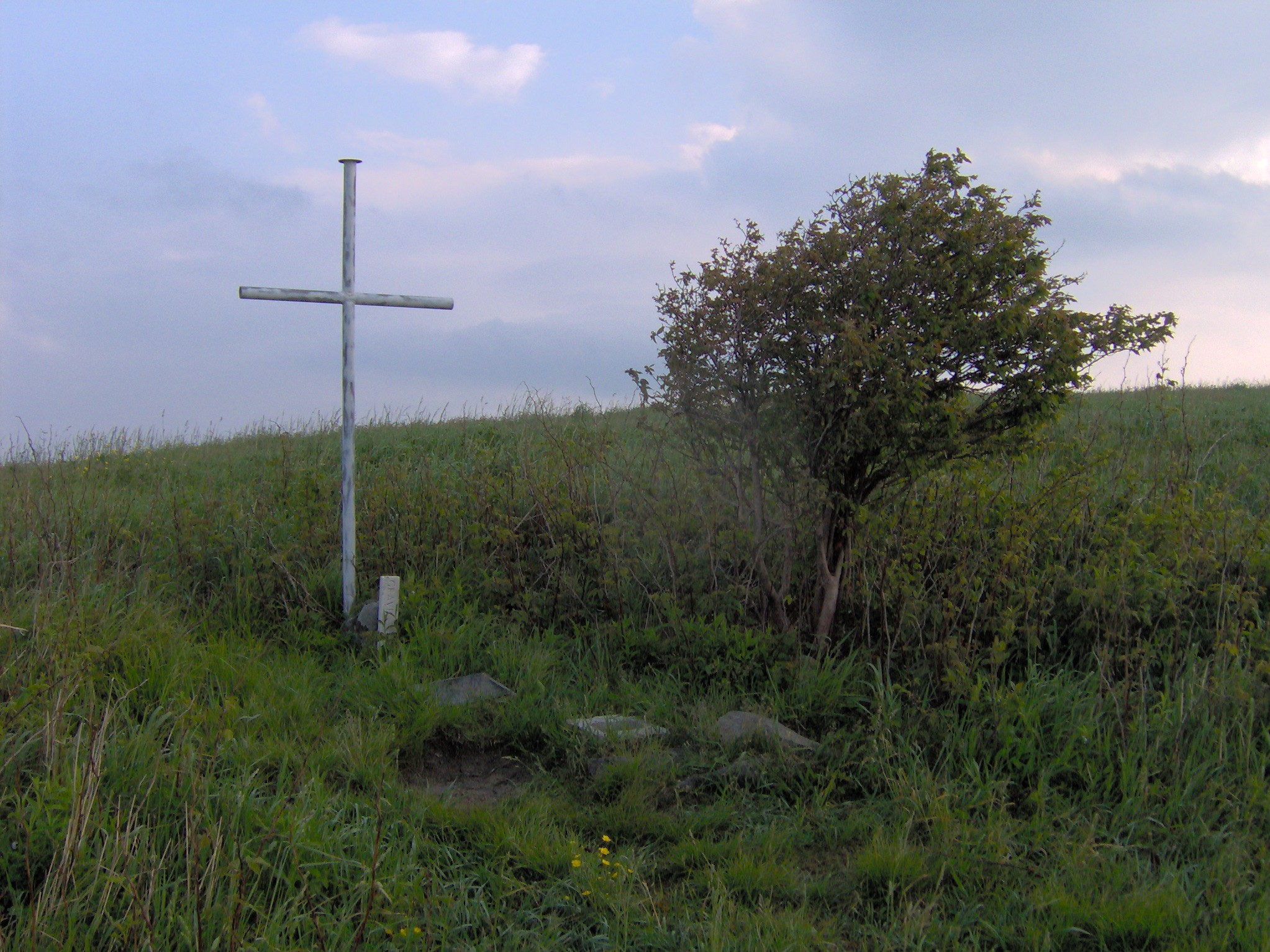 The grave of Andy Sherman near the summit of Huckleberry Knob (el. 5560ft/1695m) in the Unicoi Mountains of the southeastern United States. Sherman worked in a logging camp along Tellico River (near modern Tellico Plains, Tennessee) in the late 1890s. He and a friend named Paul O'Neil left the camp on December 11, 1899, headed across the main crest of the Unicoi Mountains en route to Robbinsville, North Carolina. A hunter found their dead bodies several months later, surrounded by several jugs of whiskey.